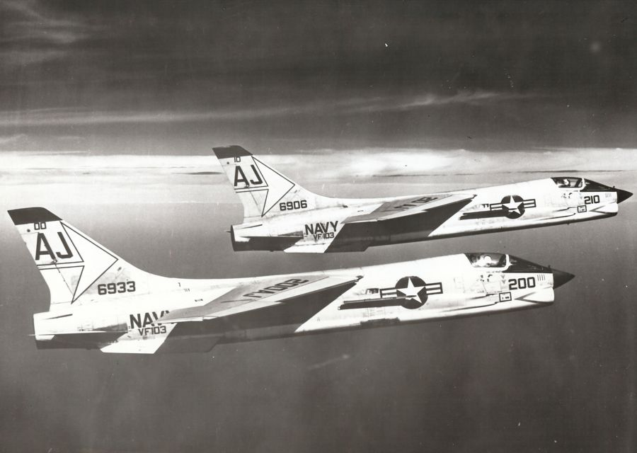 Two Vought F8U-2 Crusaders (BuNos 146906, 146933) of fighter squadron VF-103 Sluggers. VF-103 was assigned flying the F8U-2(F-8C) to Carrier Air Group Eight (CVG-8) aboard the aircraft carrier USS Forrestal (CVA-59) from 1960 to 1963.